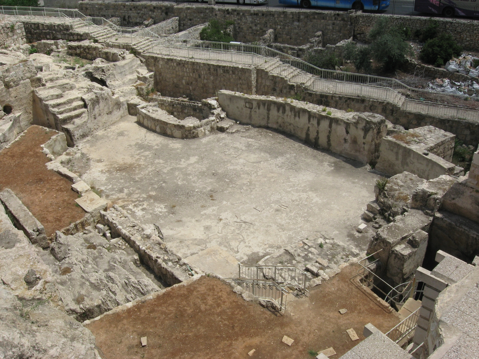 Pool unearthed during the Mazar excavations in the Ophel, at the foot of Jerusalem's Temple Mount. Either Hellenistic or Hasmonean, it may be a remnant of the Seleucid Acra.